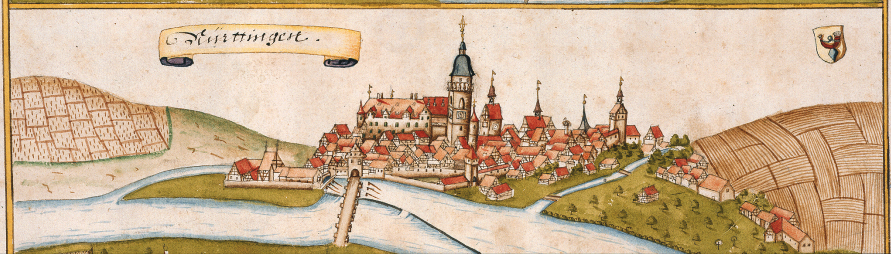 View of Nürtingen from the forest register books created by Andreas Kieser